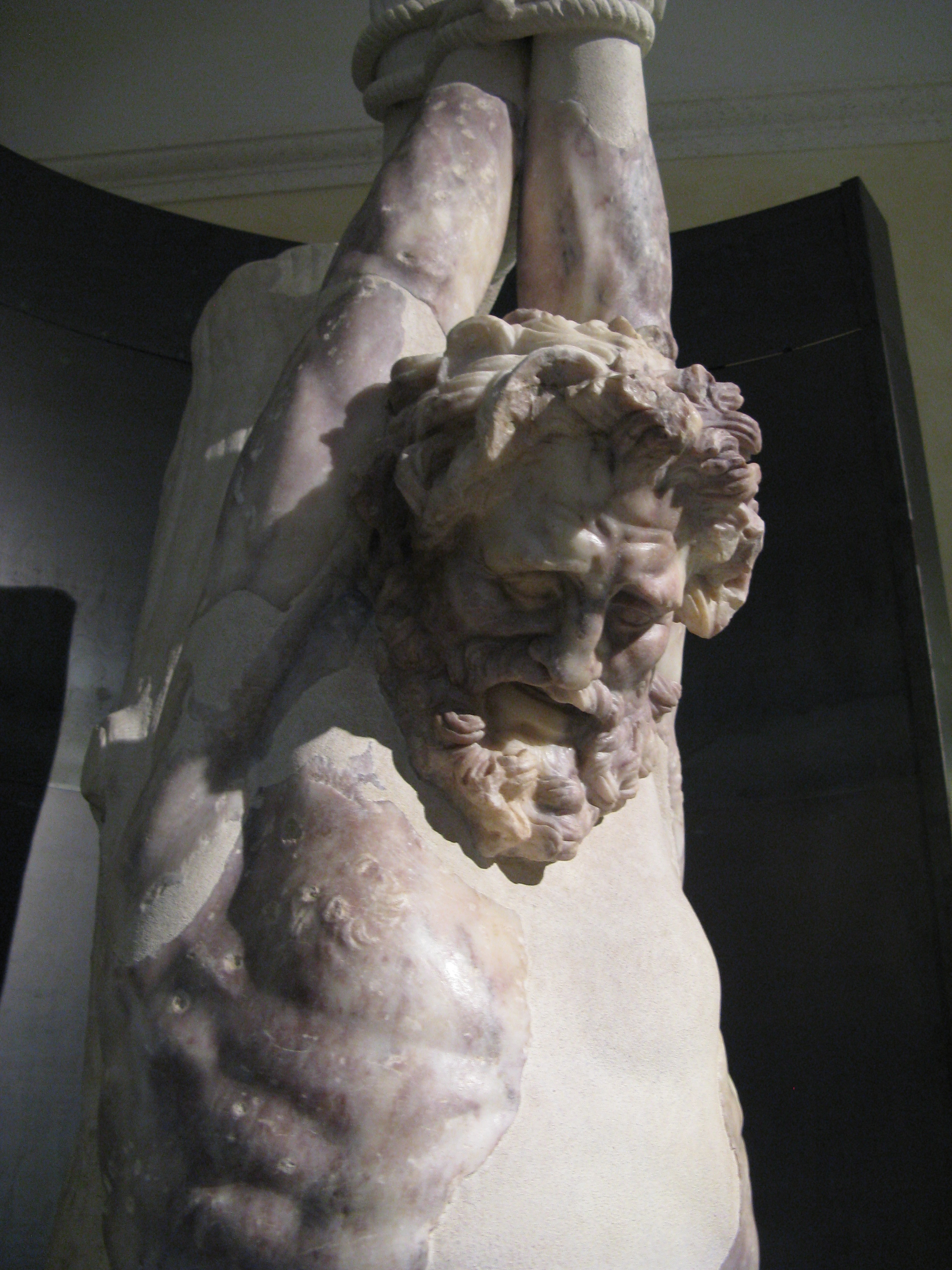 Statue of the satyr Marsyas from the Gardens of Maecenas (Horti di Mecenate).